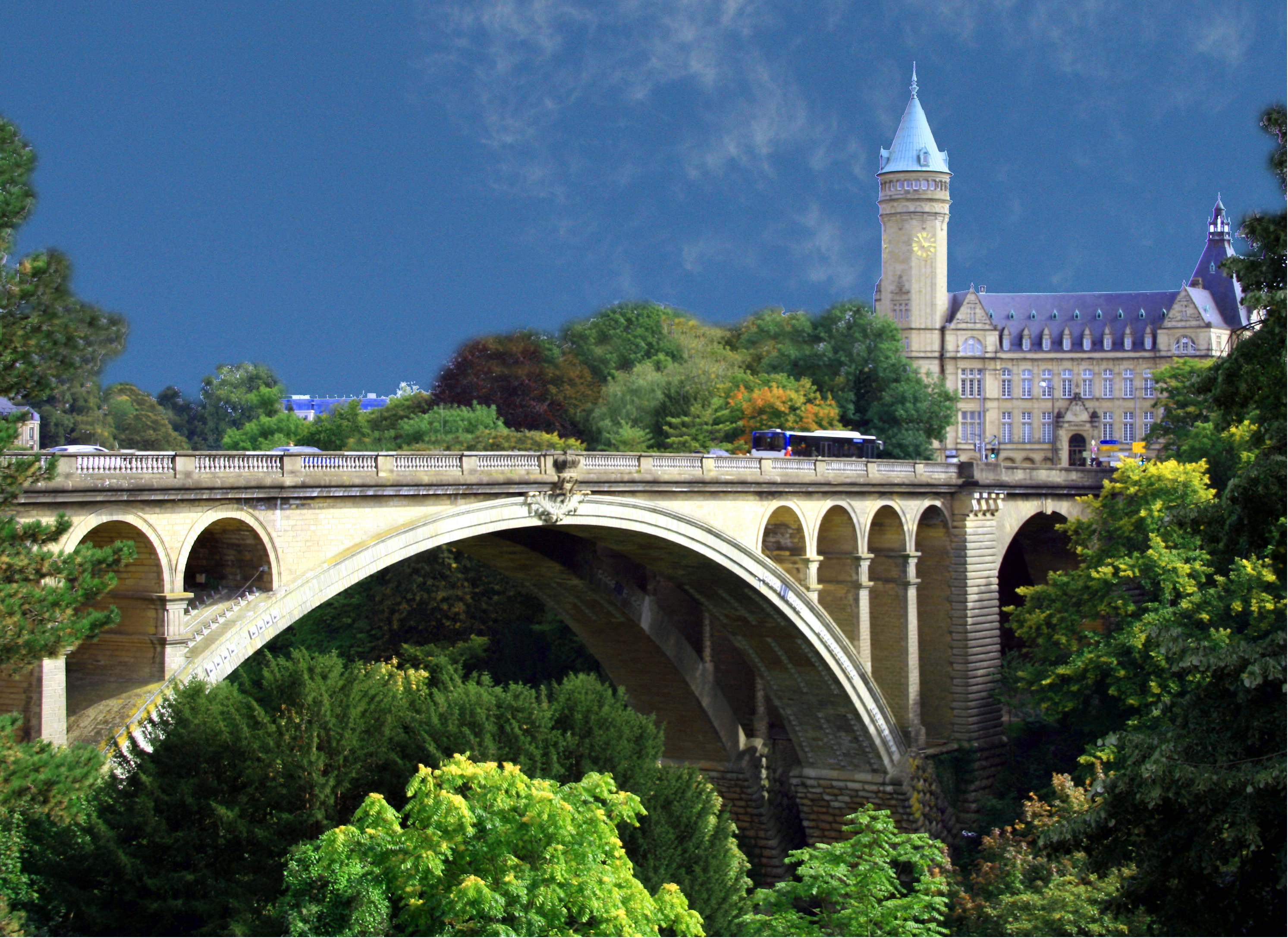 The Adolphe Bridge (Luxembourgish: Adolphe-Bréck